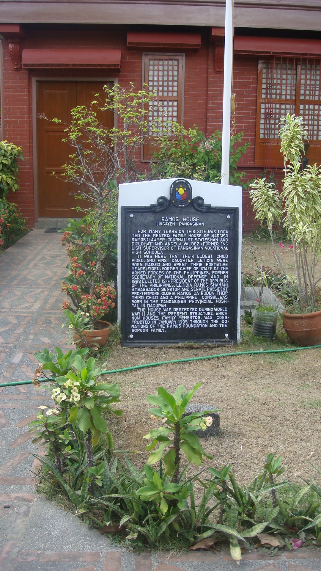 1995 Ramos House (Primicias St., Poblacion), Lingayen, Pangasinan (rented family house of Narciso Ramos & Angela Valdez, where Fidel & Leticia were born)